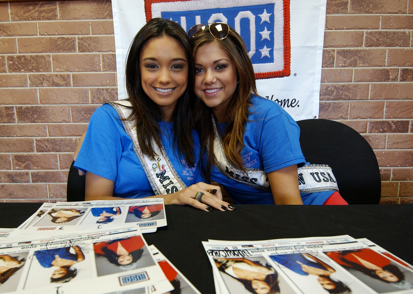 Miss USA, Rachel Smith, and Miss Teen, Hilary Cruz visit Kadena AB, Okinawa at the USO Feb. 24.